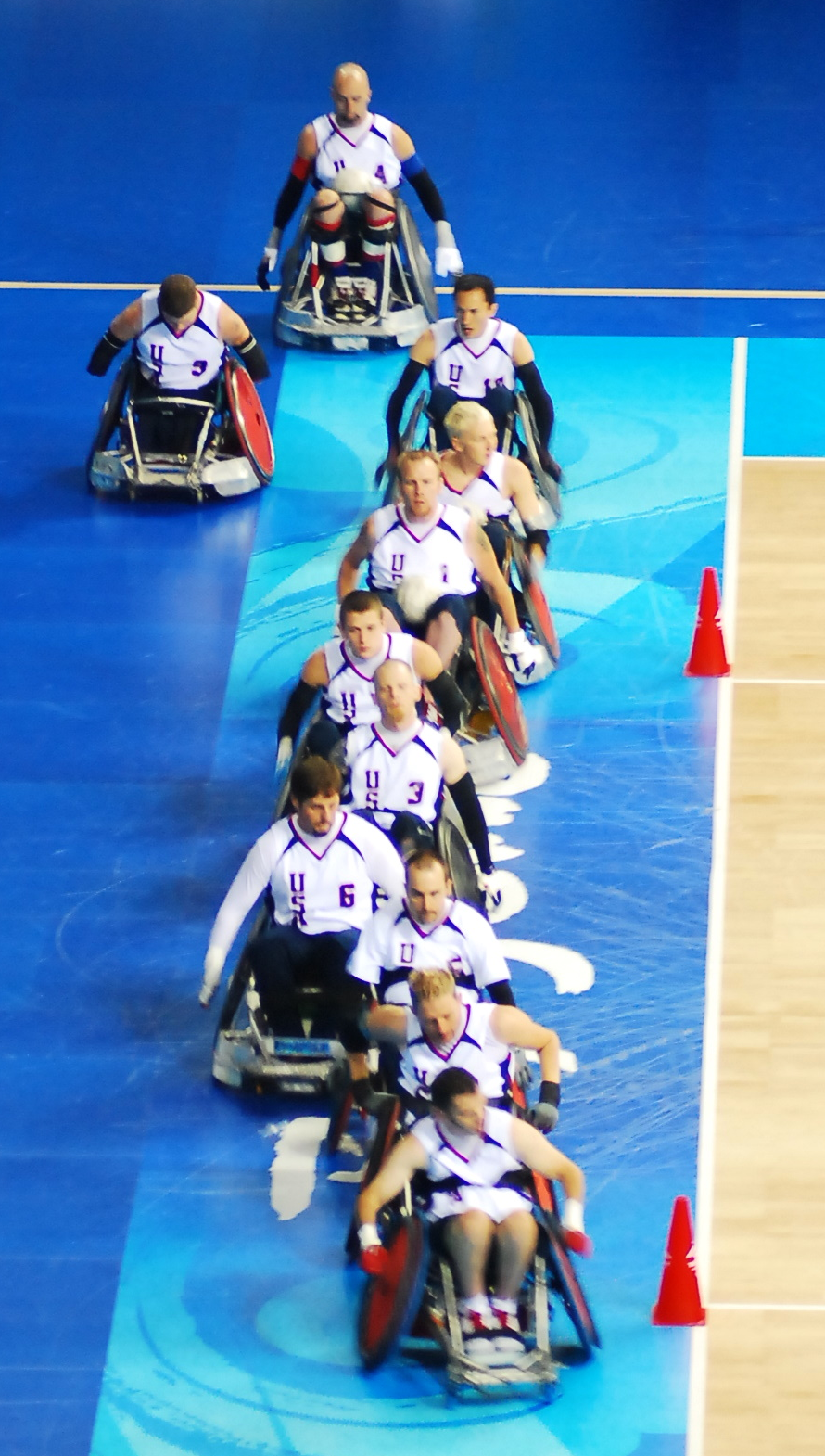 The United States national wheelchair rugby team at the 2008 Paralympic Summer Games in Beijing. (Cropped from File:US national wheelchair rugby team - Beijing Paralympics 2008.jpg) Camera: Nikon D80 License on Flickr (2010-12-30): CC-BY-SA-2.0 Flickr tags: Paralympic, china, beijing, 2008, 20080916, Wheelchair, rugby, Wheelchairrugby